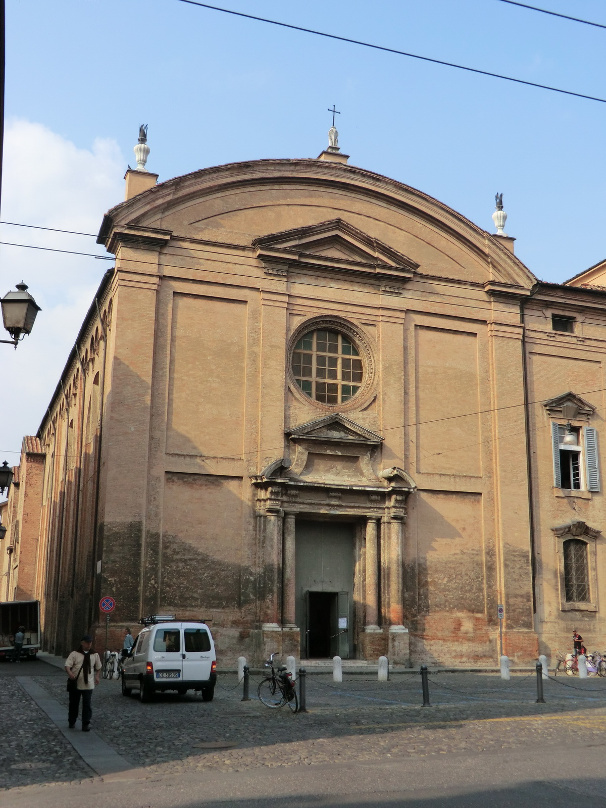 Church of Saint Augustine Native nameChiesa di Sant'AgostinoLocationModena, Emilia-Romagna, ItalyCoordinates44° 38′ 51.85″ N, 10° 55′ 17.64″ E